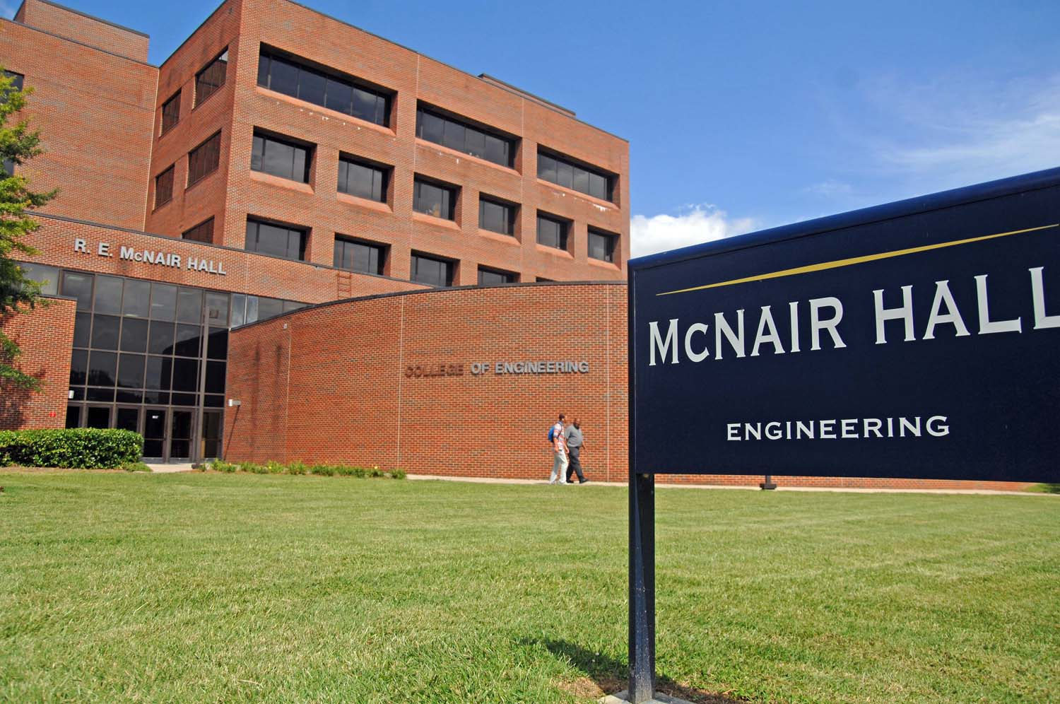 McHair Hall, so named in honor of Ronald E. McNair